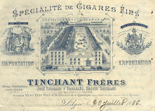 Belgian letterhead from 1895 of a cigar manufacturing firm involving the Tinchant brothers who had offices in New Orleans, Veracruz, and Antwerp